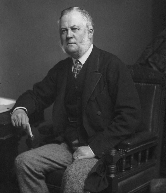 This image is of Charles Henry Gordon-Lennox, 6th Duke of Richmond, 6th Duke of Lennox, and 1st Duke of Gordon